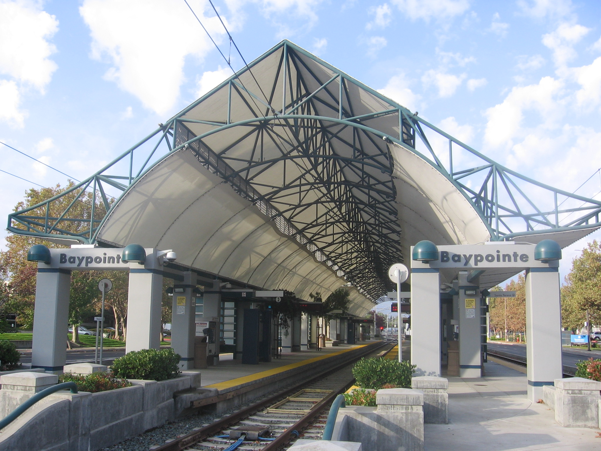 The Baypointe (VTA) light rail station in San José, California, USA.